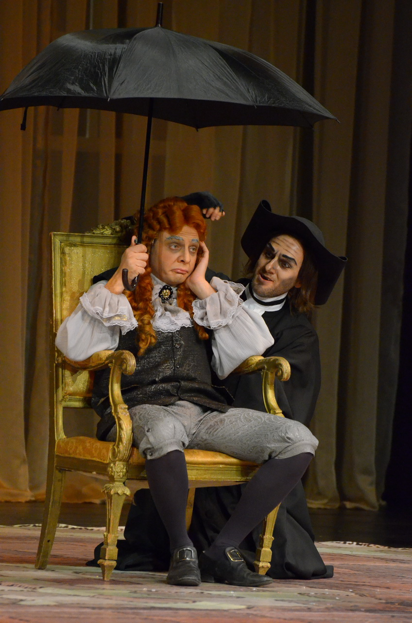 "The Barber of Seville", an opera buffa in two acts by Gioachino Rossini with an Italian libretto by Cesare Sterbini; directed by Ivica Klemenc; Opera of the SNT, Novi Sad, 2011/12; Nebojša Babić and Goran Krneta Srpski (latinica): "Seviljski berberin", opera bufa u dva čina Đoakinija Rosinija, sa libretom koji je napisao Čezare Sterbini; režija Ivica Klemenc; Opera SNP-a, Novi Sad, 2011/12; Nebojša Babić i Goran Krneta Српски (ћирилица): "Севиљски берберин", опера буфа у два чина Ђоакинија Росинија, са либретом који је написао Чезаре Стербини; режија Ивица Клеменц; Опера СНП-а, Нови Сад, 2011/12; Небојша Бабић и Горан Крнета